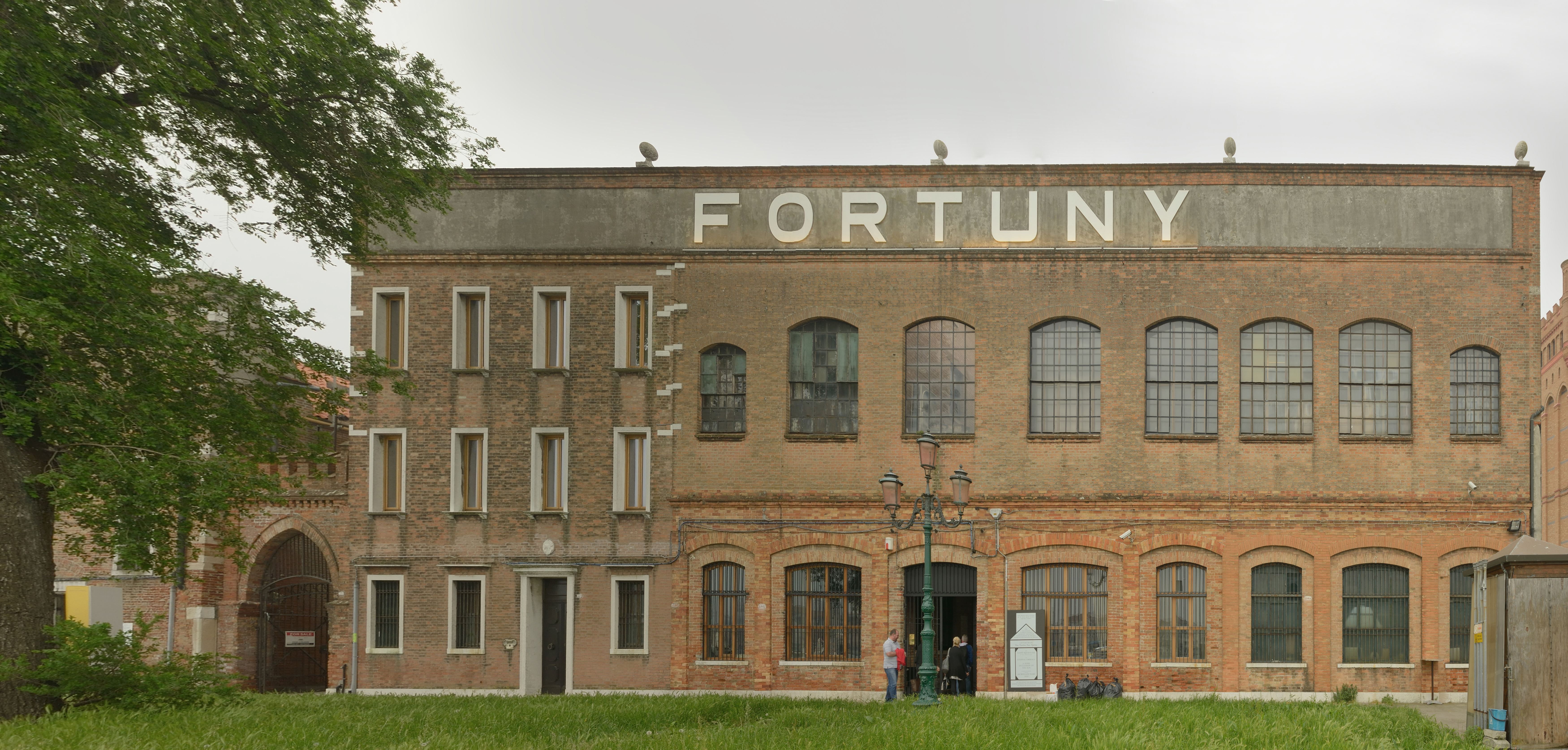 Fortuny manufacturing on Fondamenta San Biagio on the Giudecca island in Venice - Established 1919 on the island, the company manufactures mainly products inspired by design of Marià Fortuny